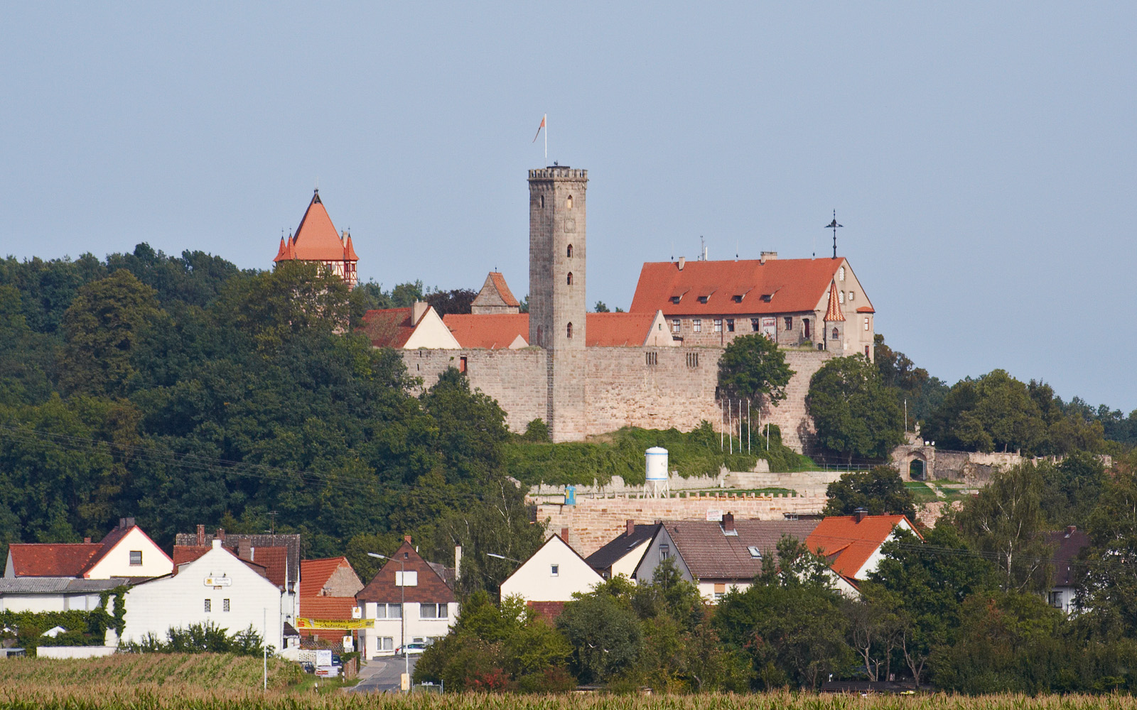 Picture of Burg Abenberg above the city of Abenberg, taken from west.